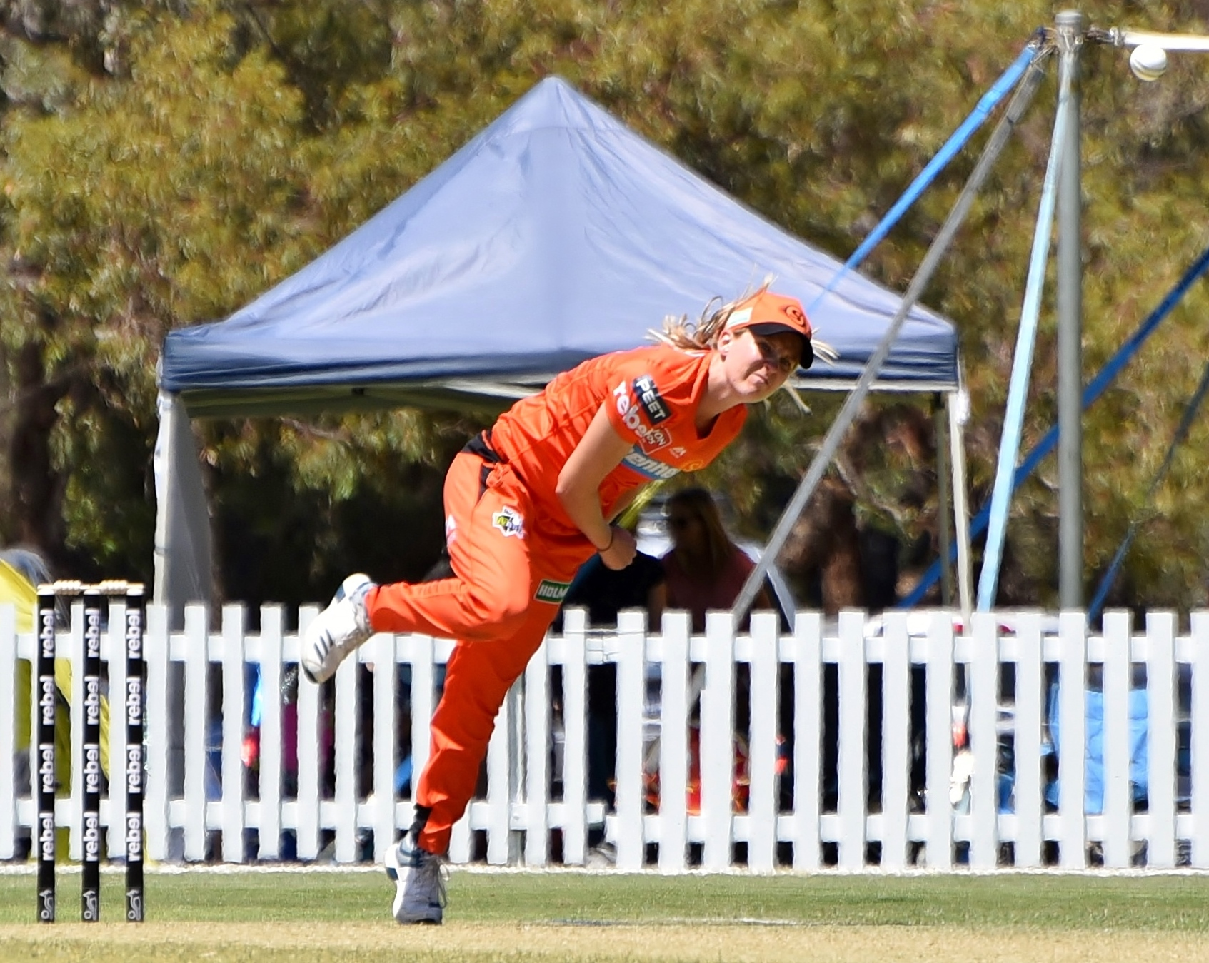 Perth Scorchers bowler Jemma Barsby bowling against the Sydney Sixers, in a WBBL match at Lilac Hill Park in Perth.